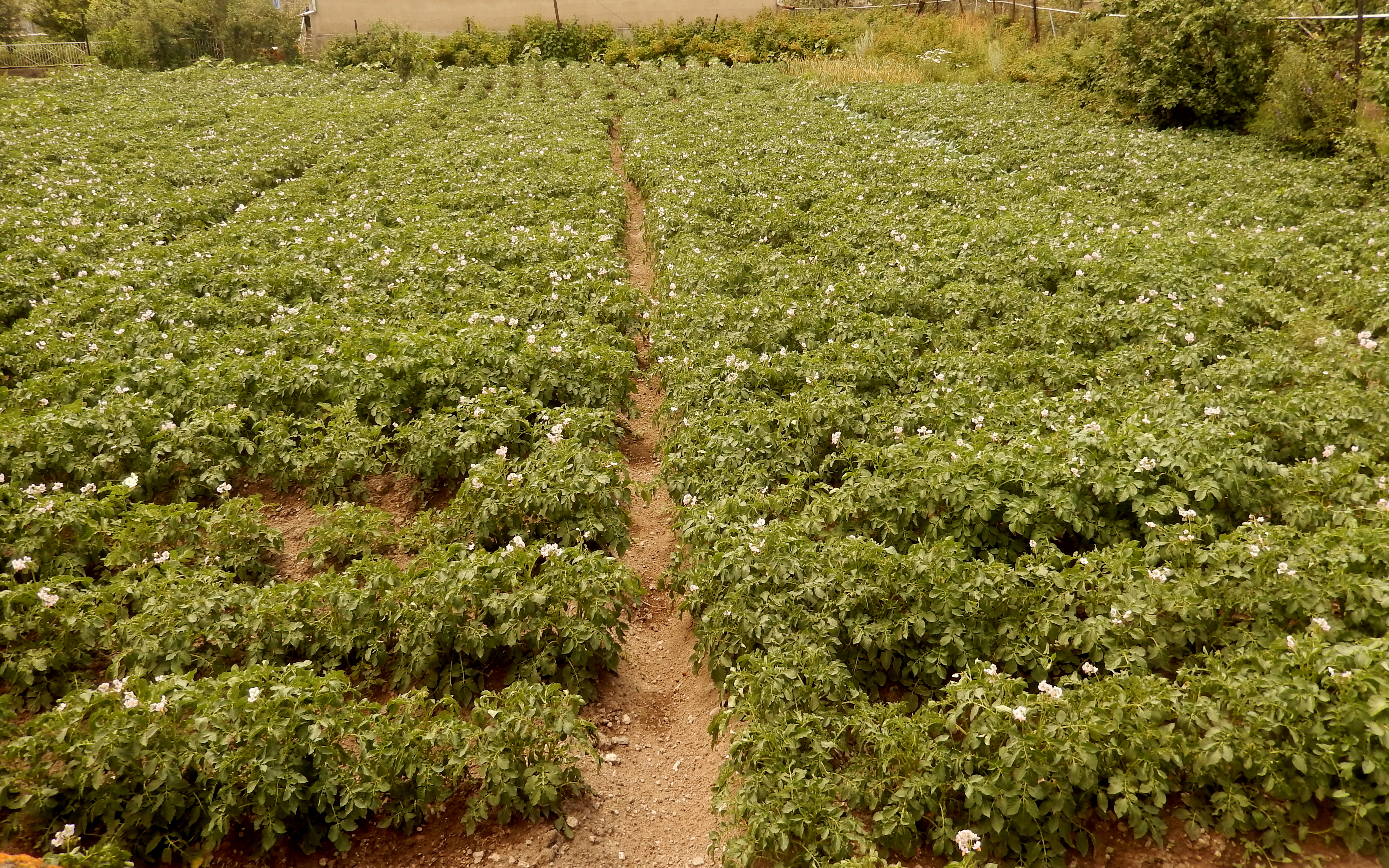 Potato field in Gavar, ARmenia